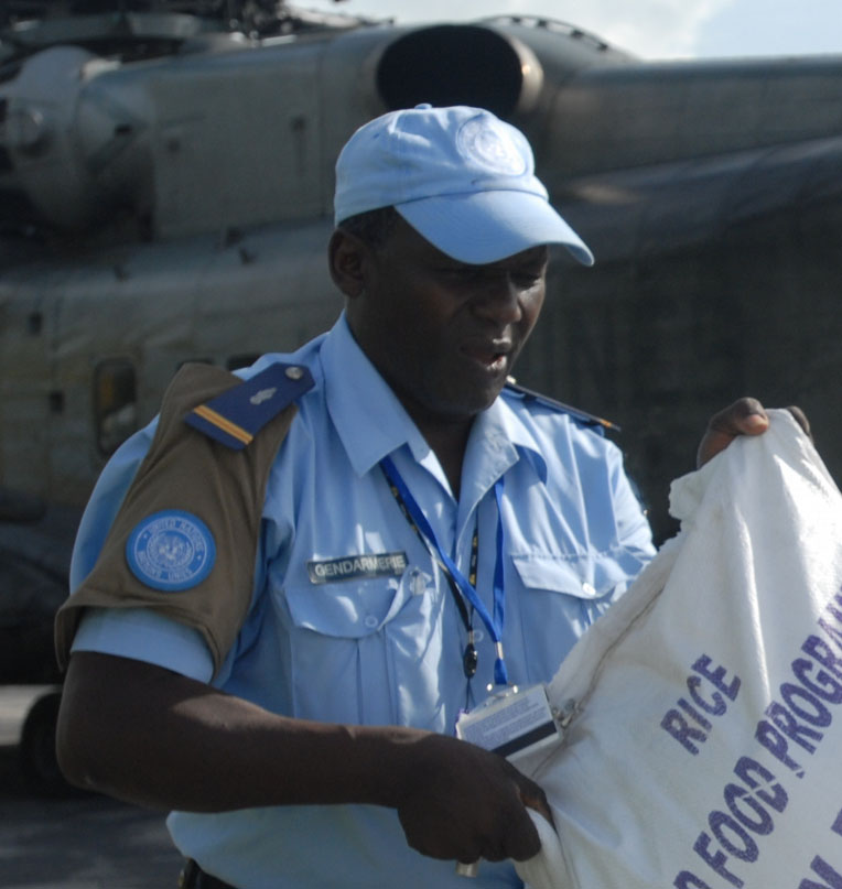 Original description: LAS CEYES, Haiti (Sept. 10, 2008) Haitian National Police work with military personnel embarked aboard the amphibious assault ship USS Kearsarge (LHD 3) to prepare food and water supplies for distribution to areas affected by recent hurricanes that have struck Haiti. Kearsarge has been diverted from the scheduled Continuing Promise 2008 humanitarian assistance deployment in the western Caribbean to conduct hurricane relief operations in Haiti.